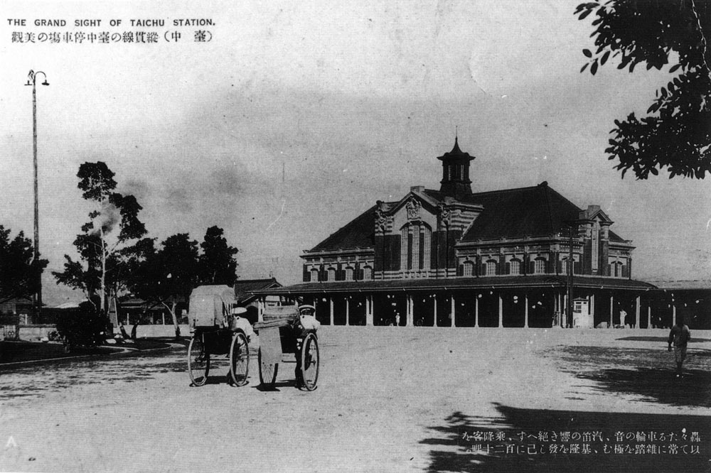 Sight of Taichung Station in Japanese era of Taiwan